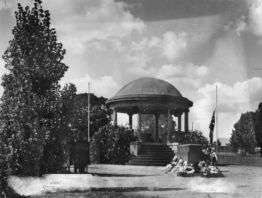 Kingaroy War Memorial, 1950. The War Memorial was built in Kingaroy Memorail Park and dedicated by Sir Thomas Glasgow on 29 June, 1932. Four people are standing to the left, in the shade of a tree. Flowers have been placed by the memorial stone and two boys are standing near the pole, while the Ausrtalian flag is flying at half mast.